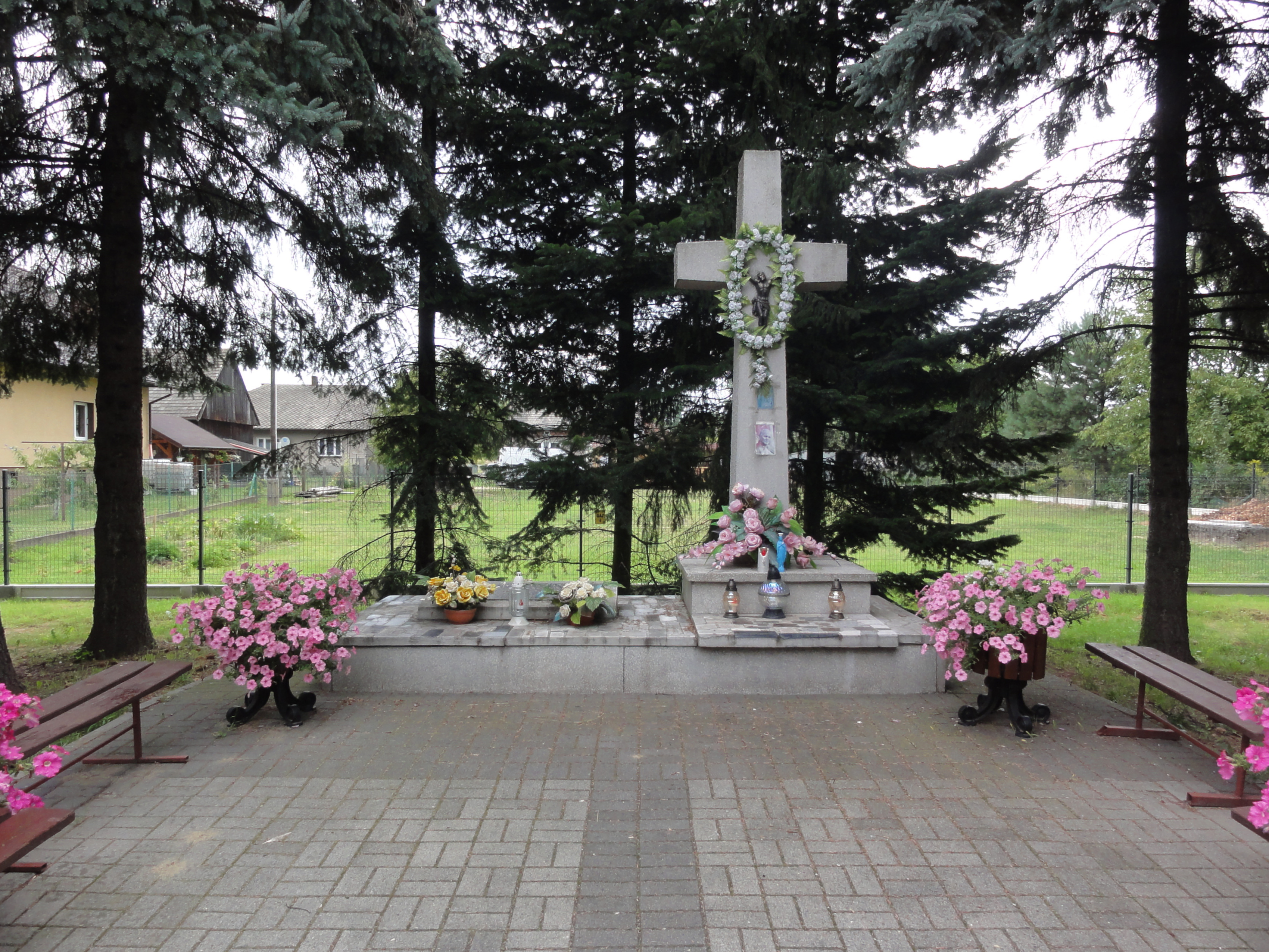 A WW2 memorial in Monowice